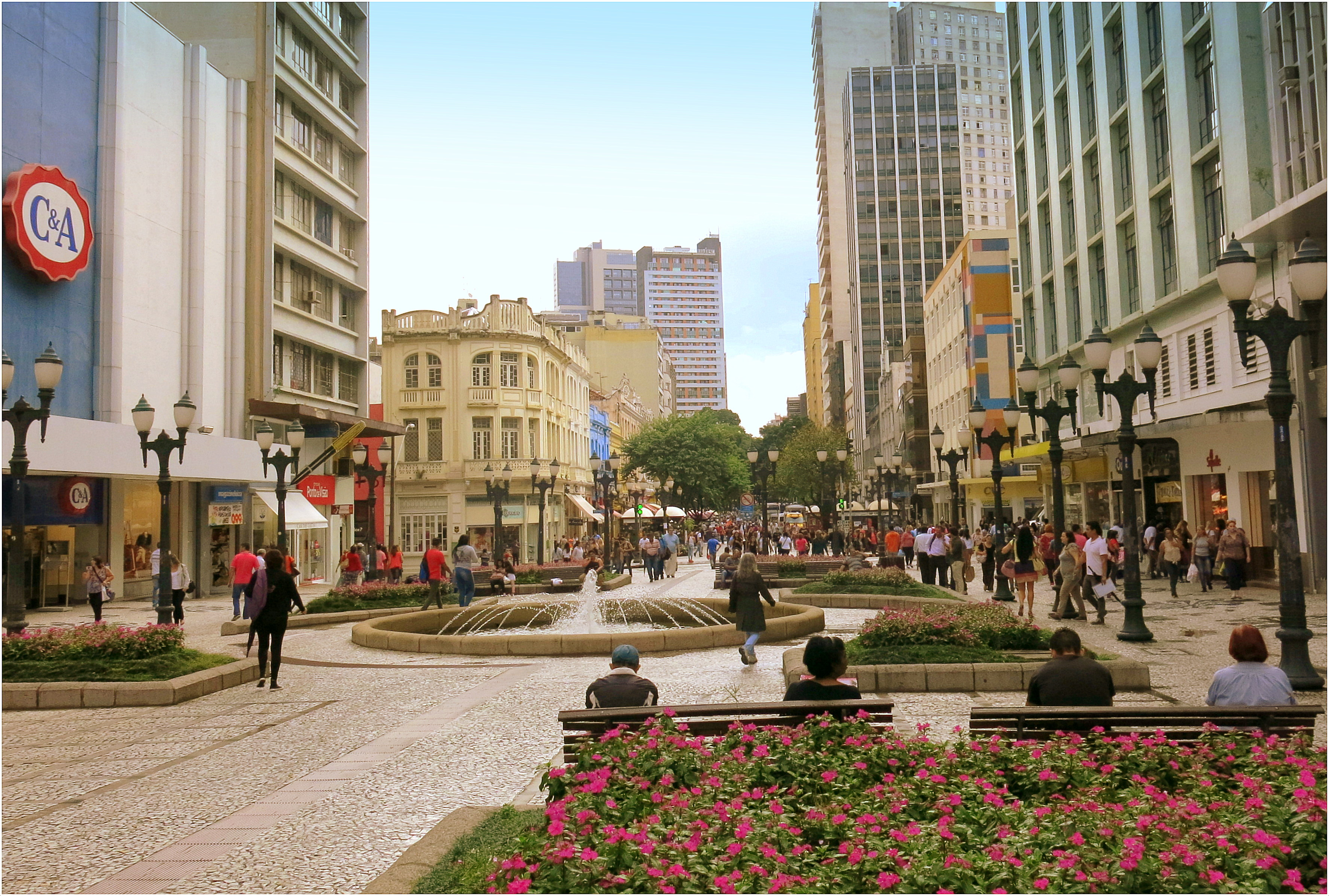 Centro, Curitiba - State of Paraná, Brazil